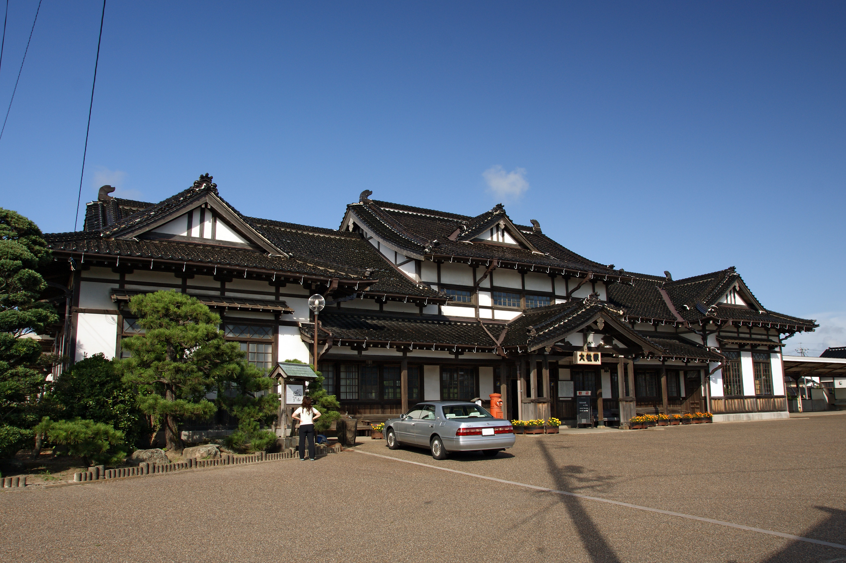 Taisha Station in Izumo, Shimane prefecture, Japan